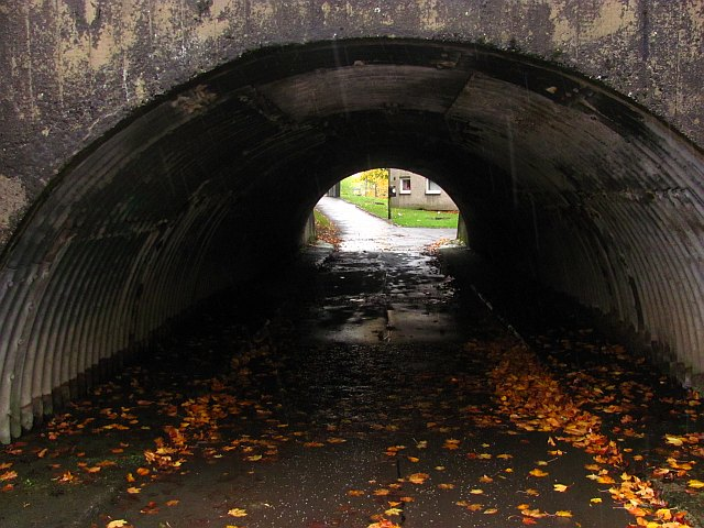 Underpass, Cumbernauld Path under North Carbrain Road toward Tarbolton Rd.